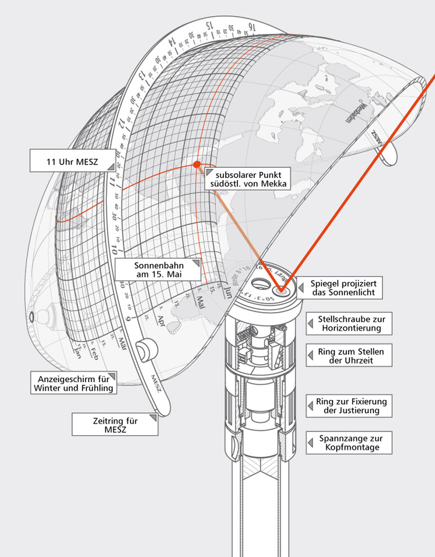 Helios sundial section